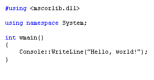 Courier New sample